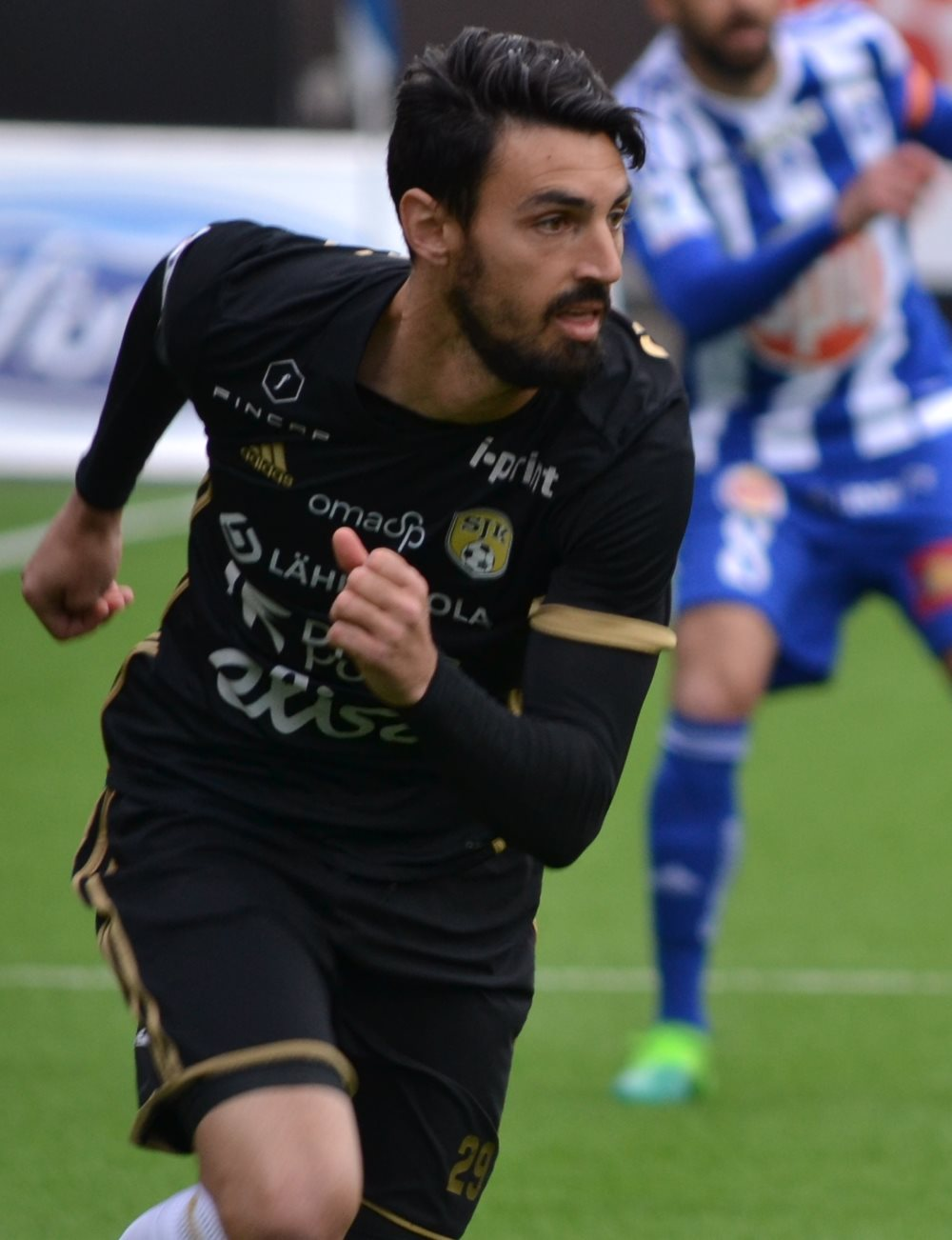 Football player José María Antón